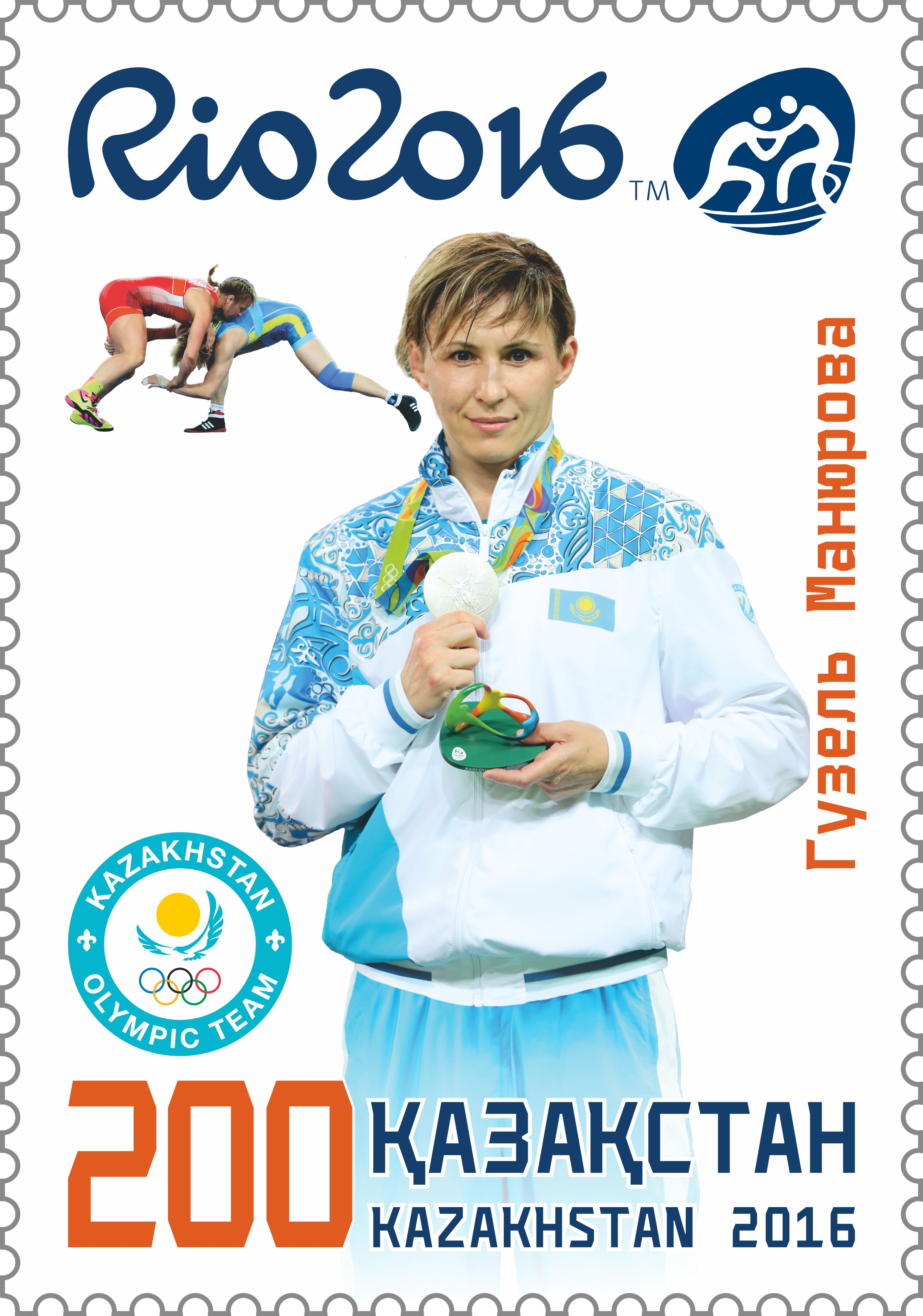 1004-1011. Sports. The XXXI Olympic Games in Rio de Janeiro.